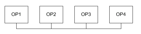 FM synthesis 4 operators - algo 8